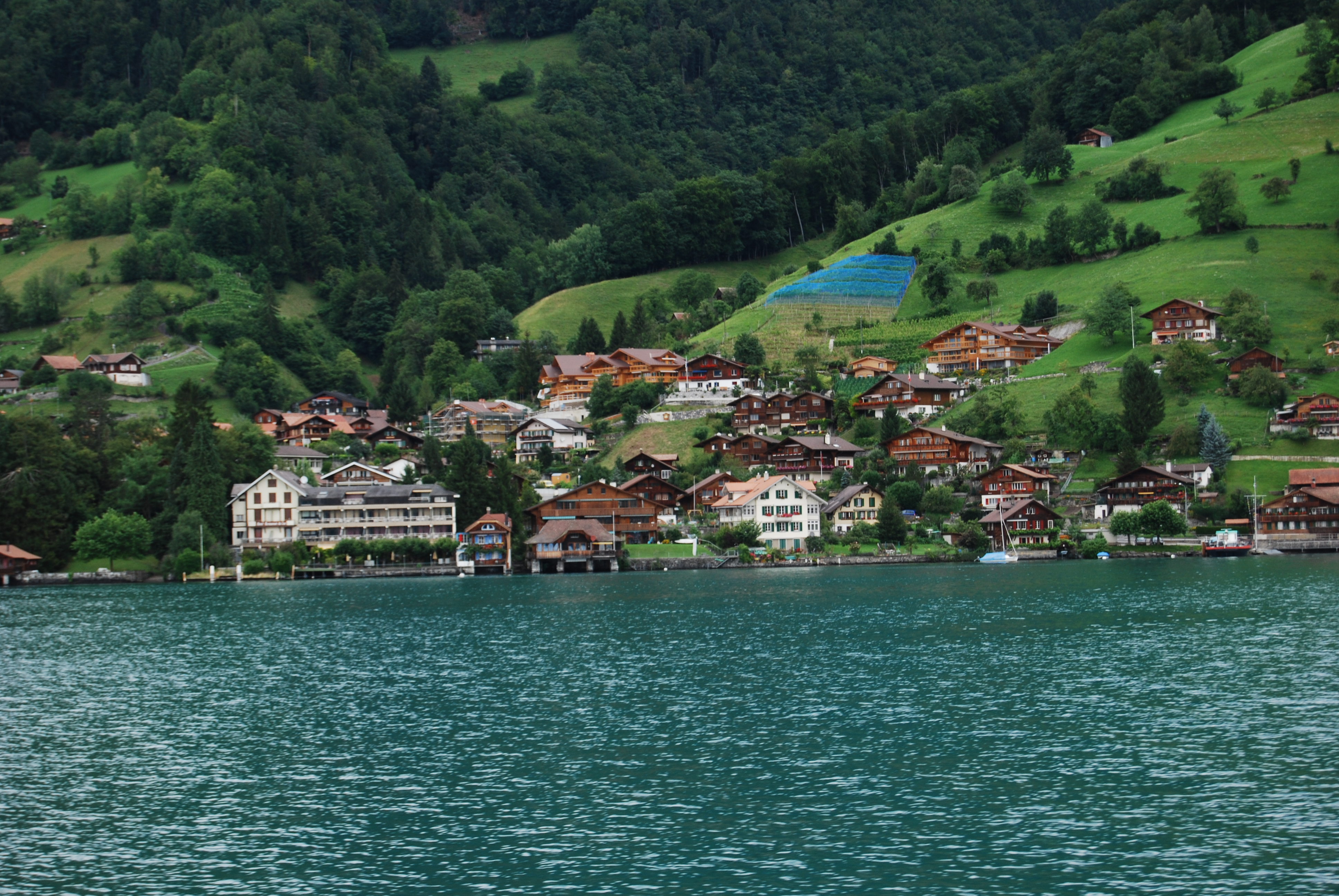 Merligen, municipality of Sigriswil, canton of Bern, Switzerland